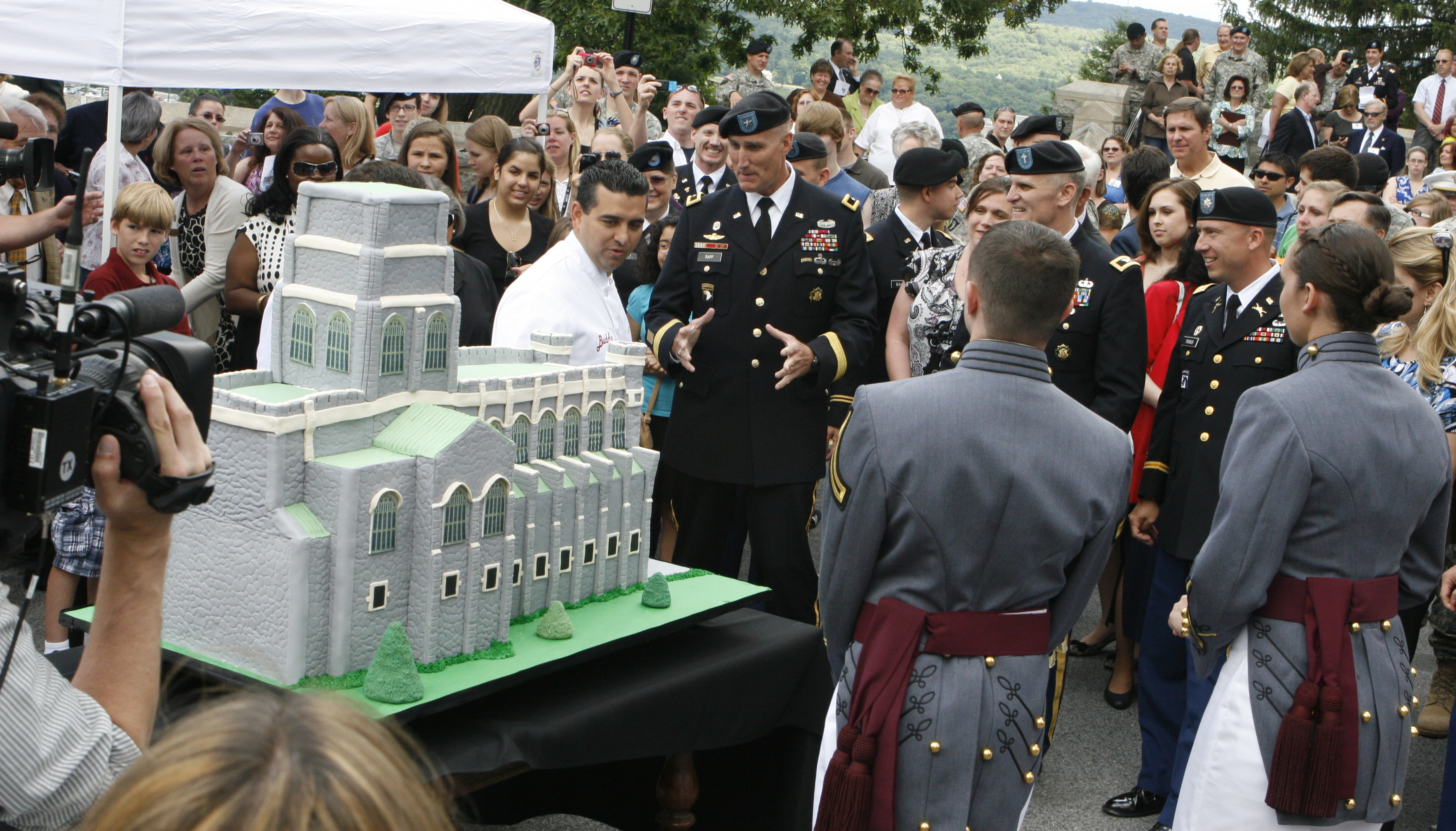 On his first trip to West Point, the “Cake Boss” presented a giant chapel cake for the Cadet Chapel Centennial celebration on June 11. A TLC production crew captured the presentation for a Season Three episode of “Cake Boss” which aired Nov. 15.